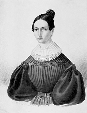 Therese Gauß (1816-1864), jüngste Tochter des Mathematikers Carl Friedrich Gauß.